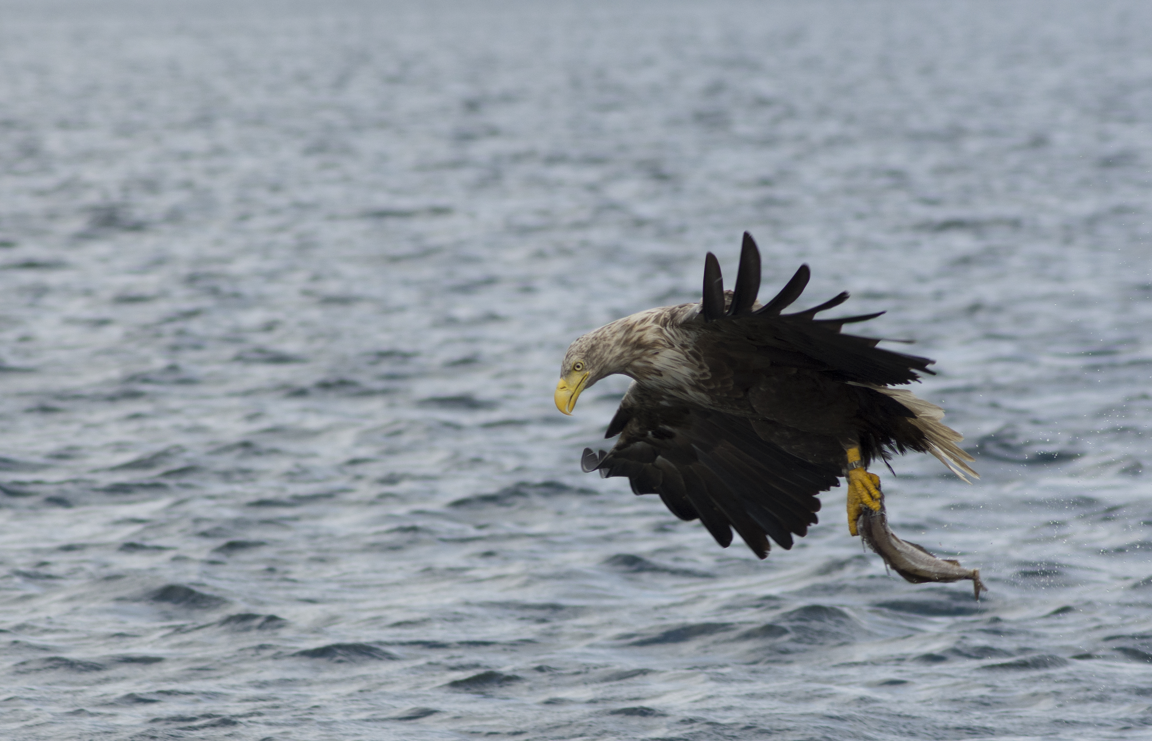 Taken on Loch Na Keal on Mull Chartes. This was my Favourite image of the Male Eagle! Thanks for the Comments and Favourites, they are appreciated. The white-tailed eagle is the largest UK bird of prey. It has brown body plumage with a conspicuously pale head and neck which can be almost white in older birds, and the tail feathers of adults are white. In flight it has massive long, broad wings with 'fingered' ends. Its head protrudes and it has a short, wedge-shaped tail. It went extinct in the UK during the early 20th century, due to illegal killing, and the present population has been reintroduced. Status: Red Population: UK Breeding: 37-44 pairs